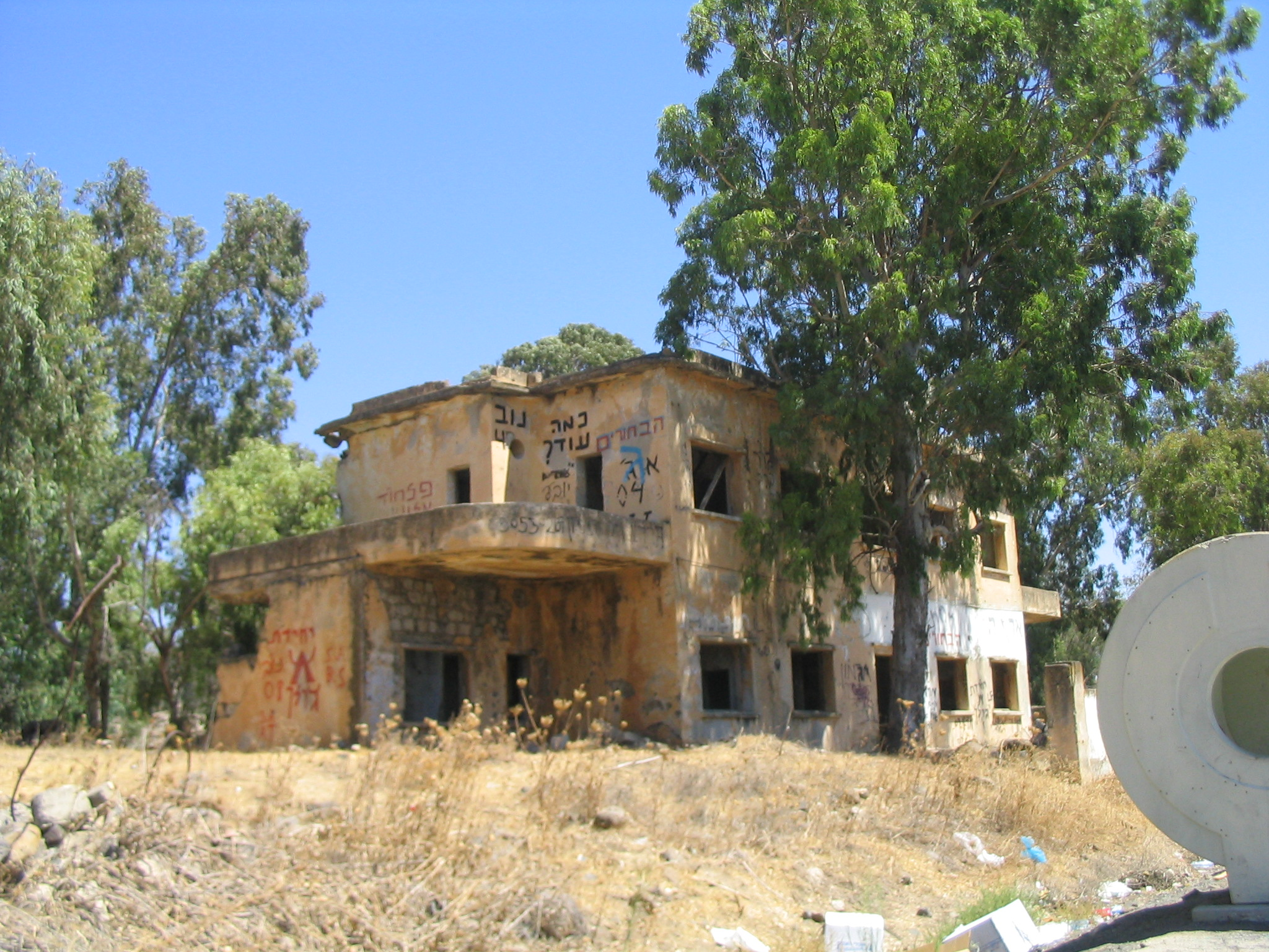 The upper custom house in the Golan Heights, Israel